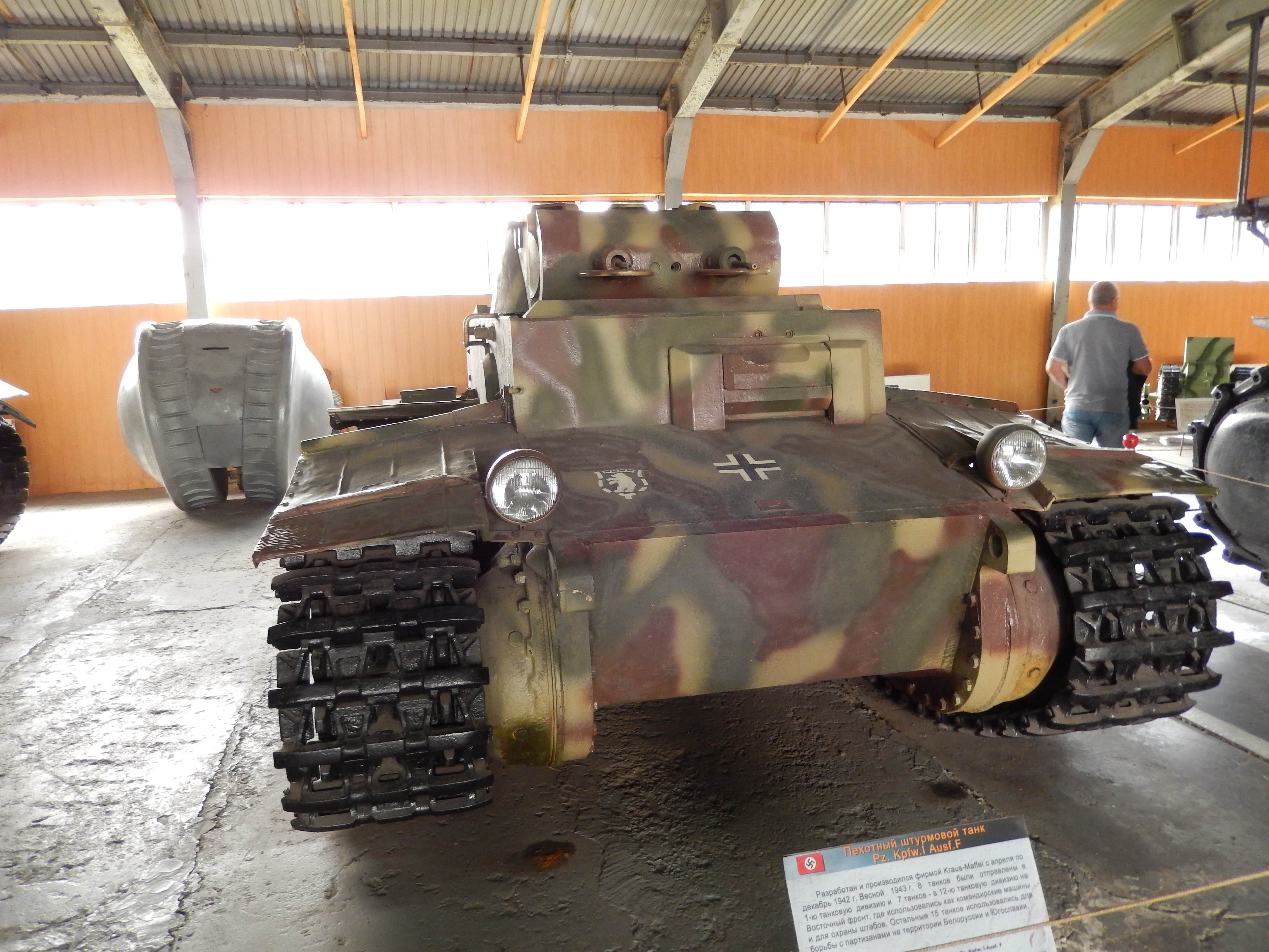 Pz.KpfW.I Ausf.F in a museum in Kubinka